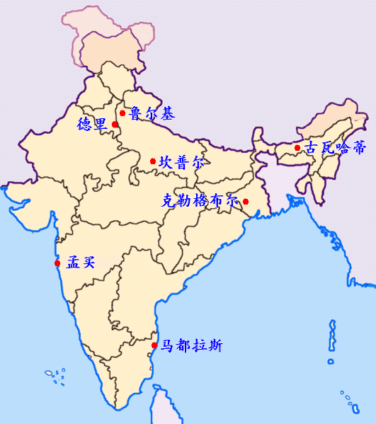 Simplified Chinese Version of File:IIT_Location.PNG